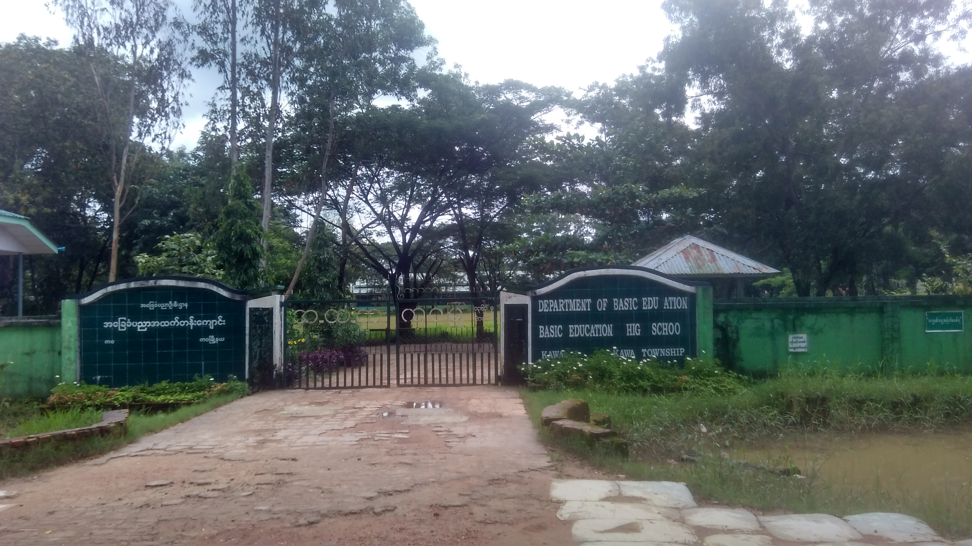 B.E.H.S - Kawa မြန်မာဘာသာ: အ.ထ.က - ကဝ။ ပဲခူးတိုင်းဒေသကြီး၊ ကဝမြို့တွင် တည်ရှိသည်။